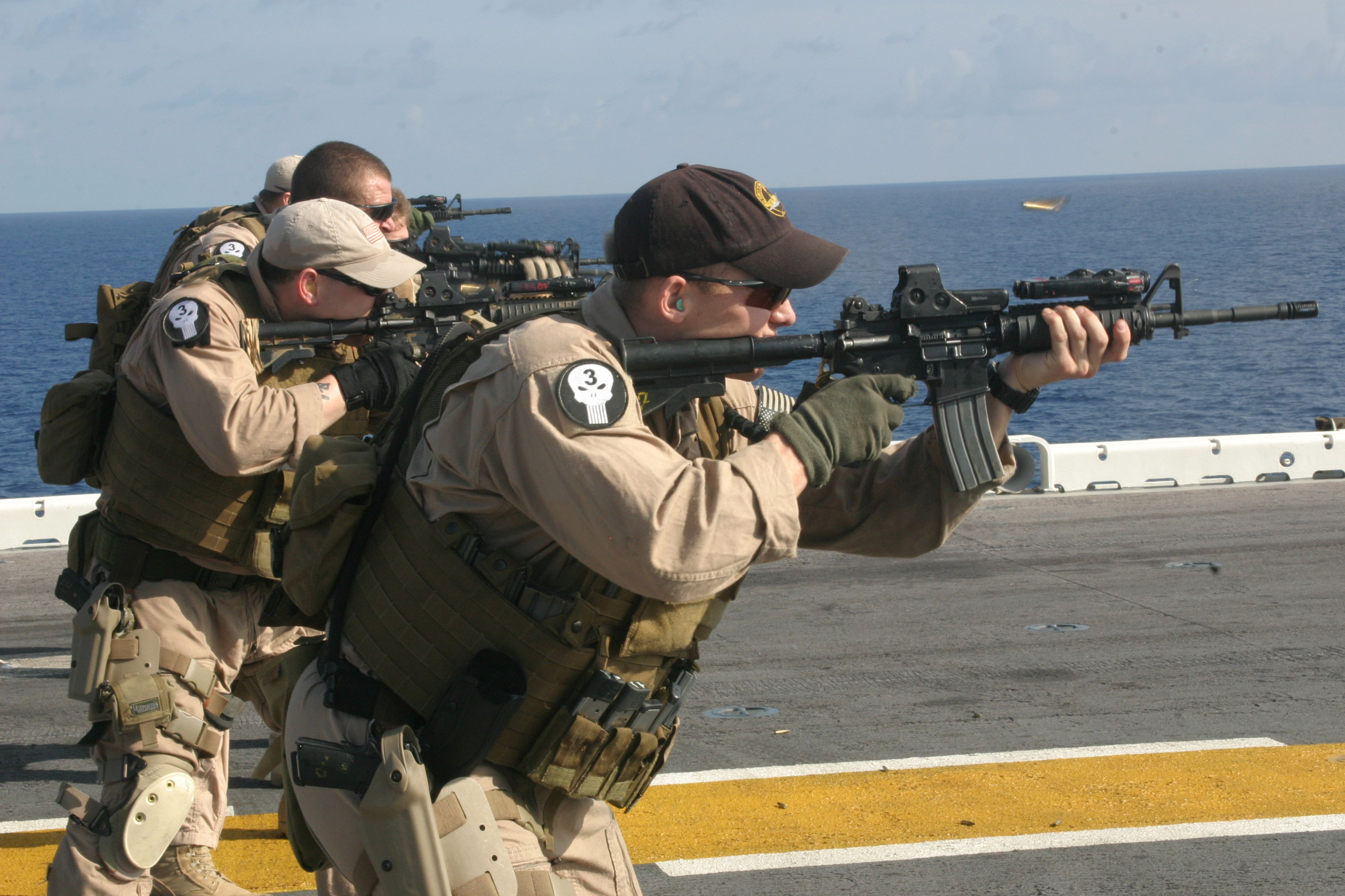 Persian Gulf (April 29, 2005) - Marines assigned to the force reconnaissance platoon detached to the 26th Marine Expeditionary Unit (MEU) (Special Operations Capable), conduct small arms fire training with M-4 Carbine service rifles on the flight deck, aboard the amphibious assault ship USS Kearsarge (LHD 3). The Kearsarge Expeditionary Strike Group is on a scheduled deployment in support of the Global War on Terrorism. U.S. Marine Corps photo (RELEASED)